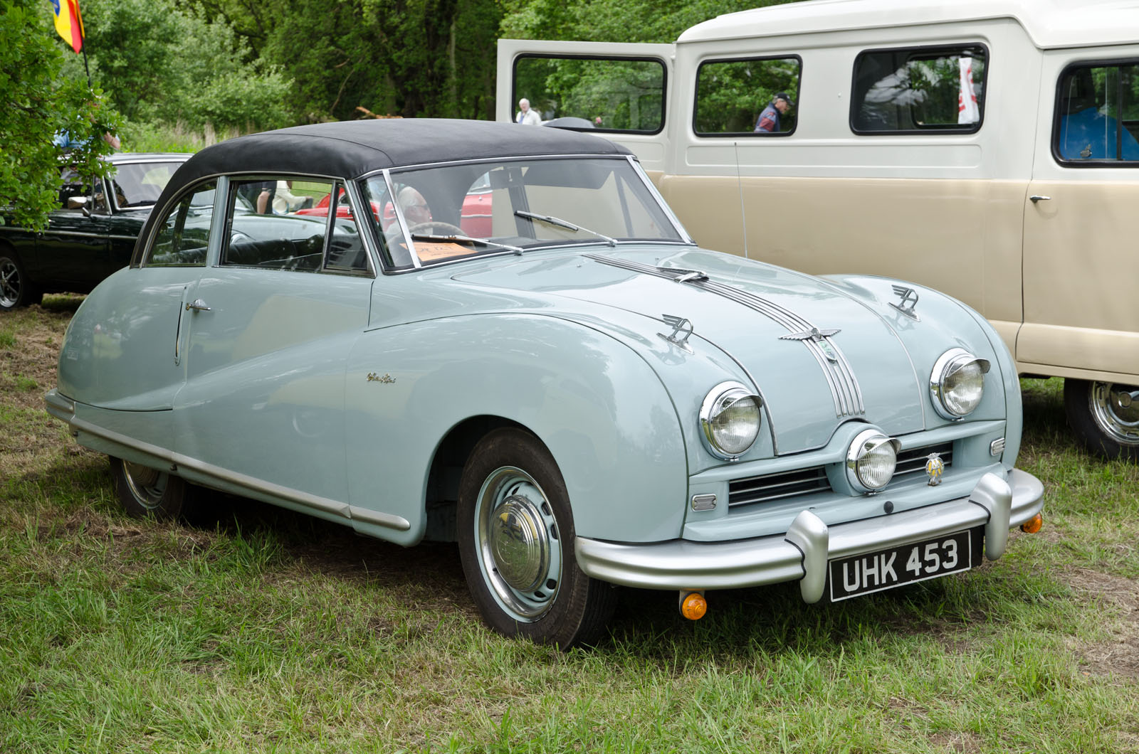 Trentham Gardens Classic Car Show 16/06/2013